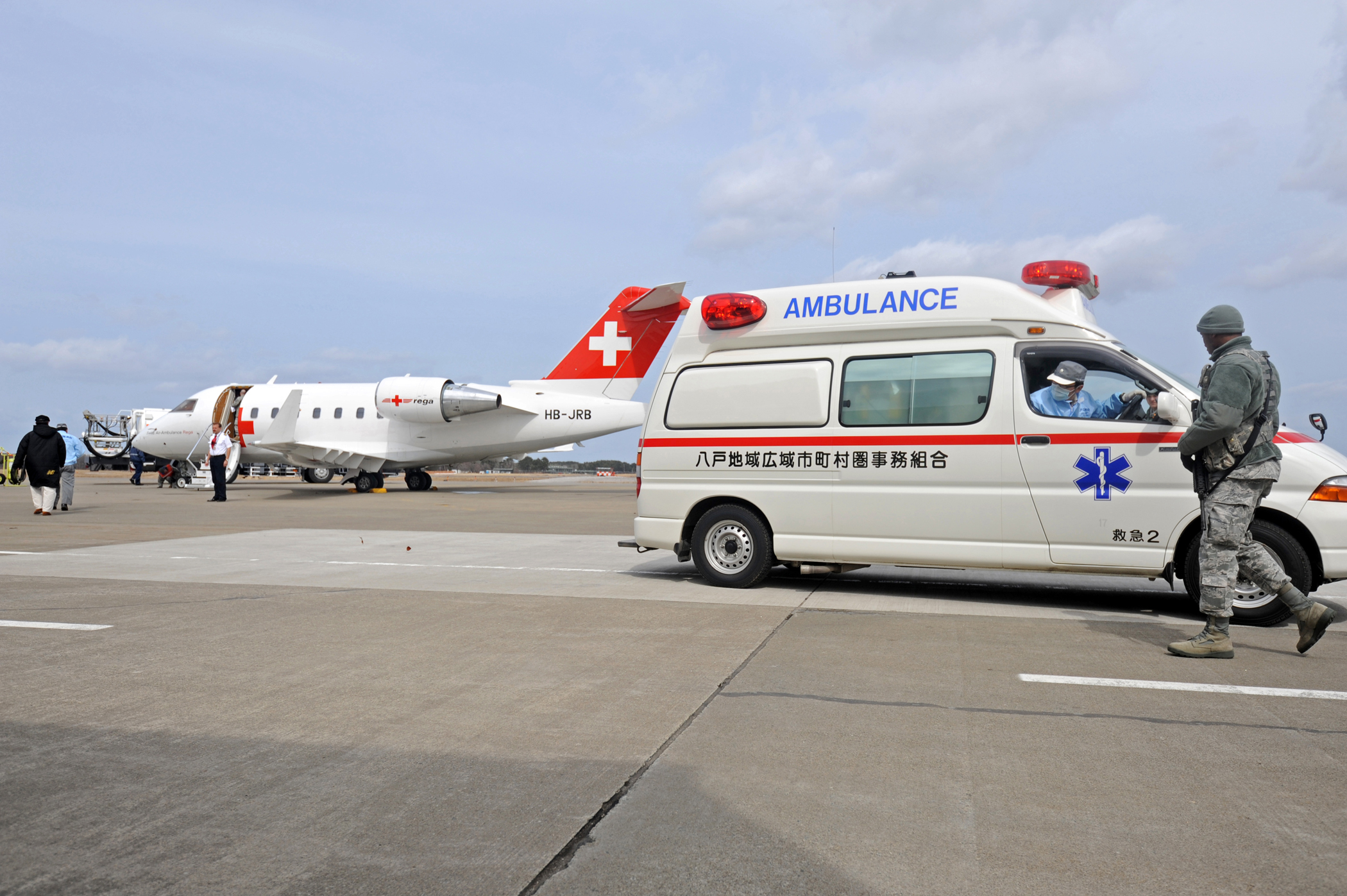 Medical evacuation flight departs Misawa Japan following tsunami